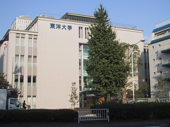 Toyo University Hakusan Campus No.6 Hall(東洋大学白山キャンパス6号館)